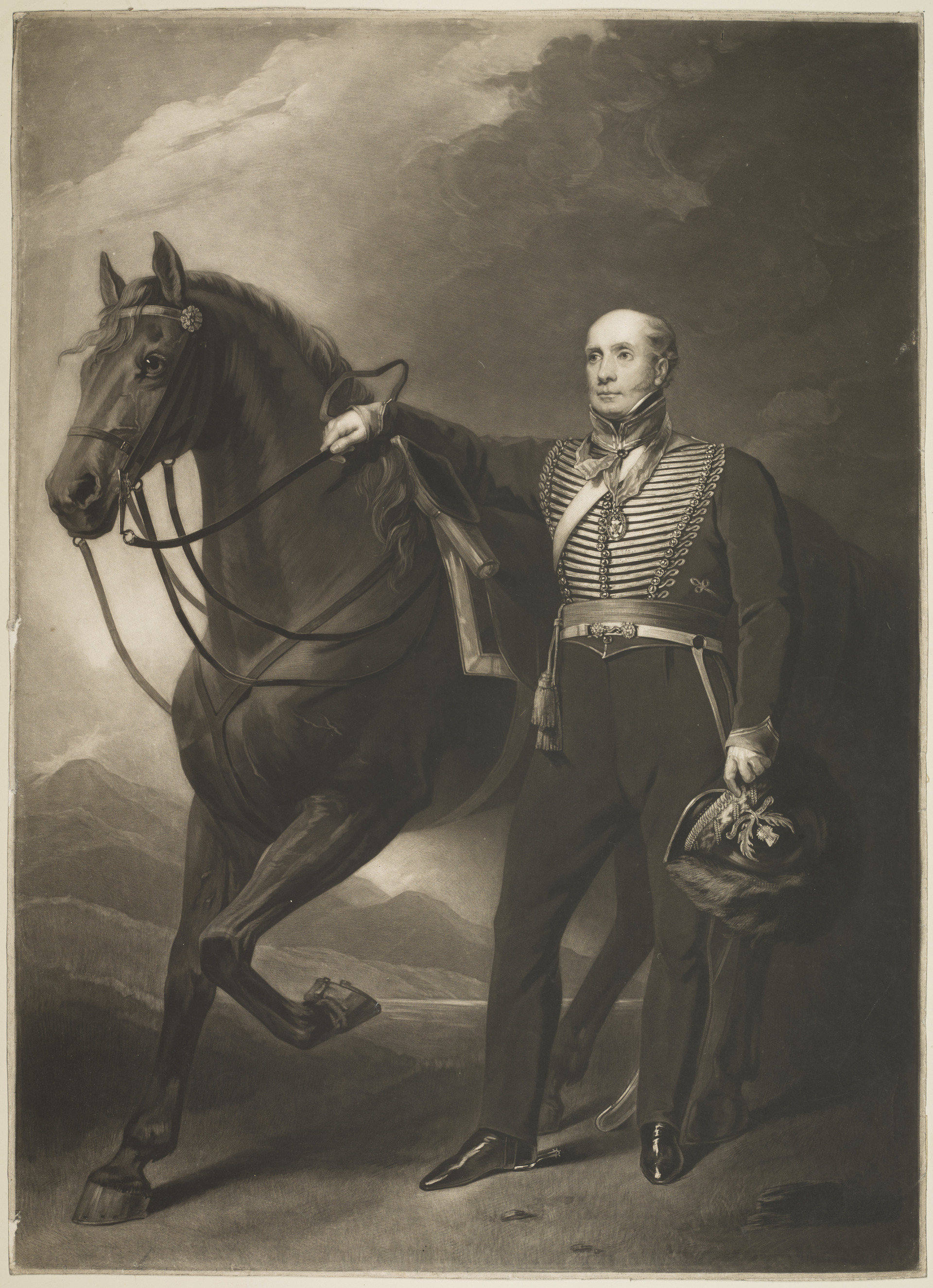 Thomas Hodgetts; after John Syme About this artwork title: Sir John Hope. Of Craighall accession number: SPL 43.2 artist: Thomas HodgettsEnglish (active 1801 - 1846) after: John SymeScottish (1795 - 1861) gallery: Scottish National Portrait Gallery(Print Room) object type: Work on paper materials: Mezzotint on paper date created: Unknown measurements: 60.96 x 43.18 cm credit line: Given by Miss E.S. Boswell 1938